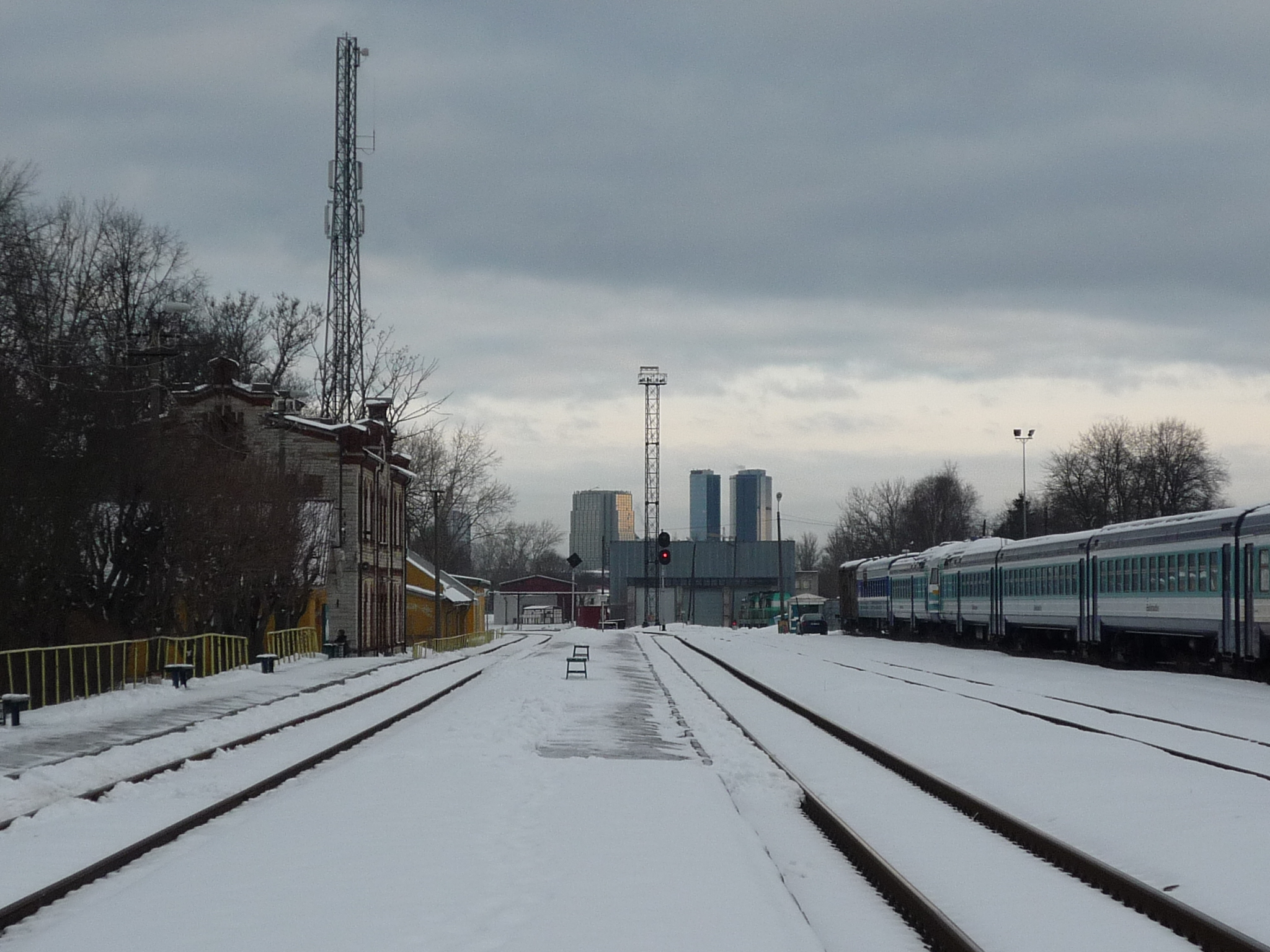 Railway station Tallinn-Väike. View to city centre. Tallinn, Estonia.